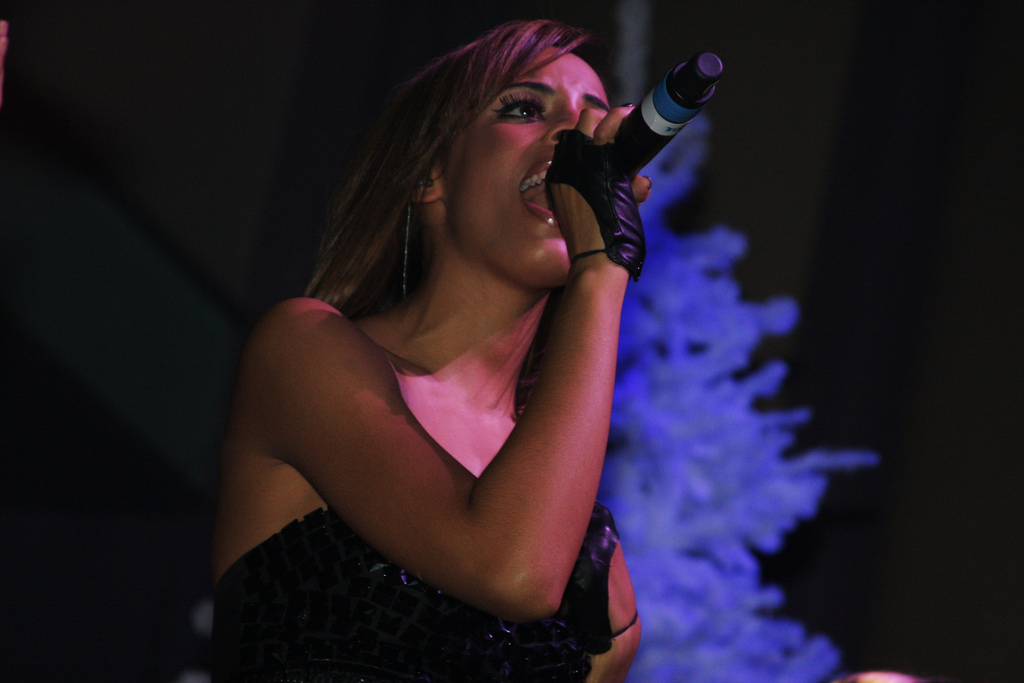 Rochelle Wiseman of The Saturdays